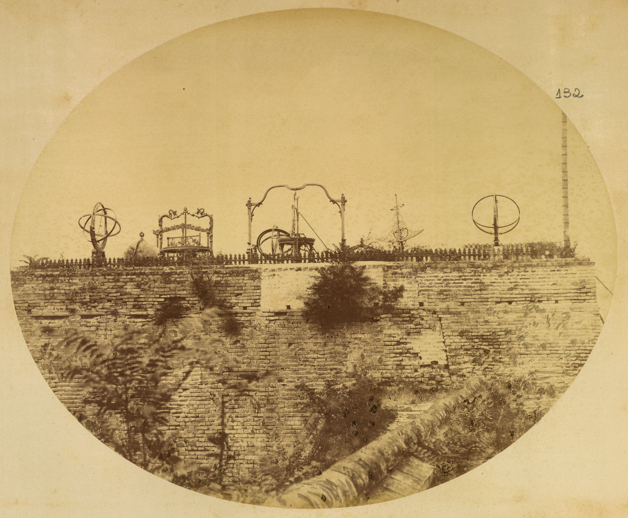 In 1874-75, the Russian government sent a research and trading mission to China to seek out new overland routes to the Chinese market, report on prospects for increased commerce and locations for consulates and factories, and gather information about the Dungan Revolt then raging in parts of western China. Led by Lieutenant Colonel Iulian A. Sosnovskii of the army General Staff, the nine-man mission included a topographer, Captain Matusovskii; a scientific officer, Dr. Pavel Iakovlevich Piasetskii; Chinese and Russian interpreters; three non-commissioned Cossack soldiers; and the mission photographer, Adolf Erazmovich Boiarskii. The mission proceeded from Saint Petersburg to Shanghai via Ulan Bator (Mongolia), Beijing, and Tianjin, and then followed a route along the Yangtze River, along the Great Silk Road through the Hami oasis, to Lake Zaysan, back to Russia. Boiarskii took some 200 photographs, which constitute a unique resource for the study of China in this period. Most of the photographs are included in this album, which later became part of the Thereza Christina Maria Collection assembled by Emperor Pedro II of Brazil and given by him to the National Library of Brazil. Armillary spheres; Astronomical instruments; Astronomical observatories; Memory of the World